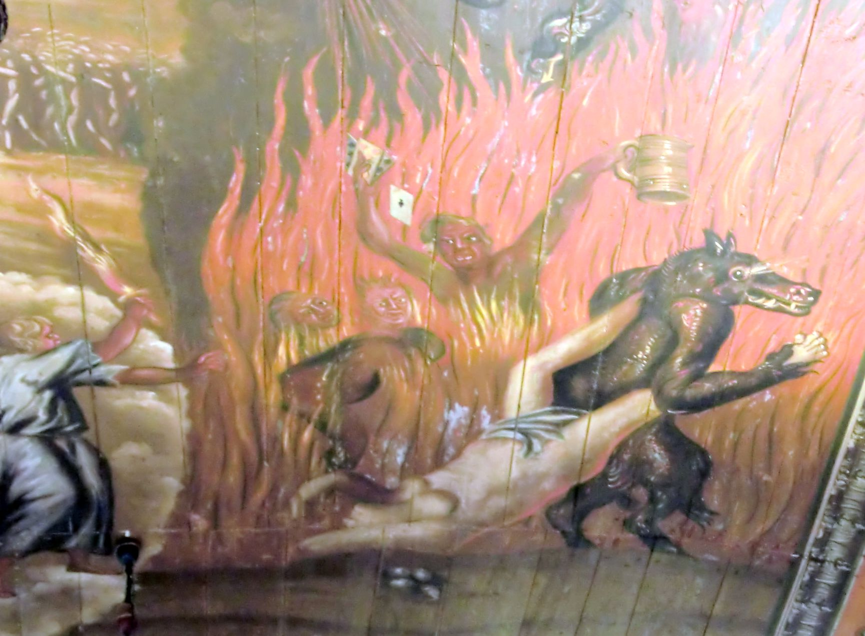 Detail of paining in the ceiling of Nödinge parish church, Göta Älv river valley, Sweden. According to the ledgend, the painter had bought some eggs from a local woman, paid for fresh but got rotten. Angry over this, he painted the eggs close to Hell on the painting (lower part of the photo), and the egg-selling woman as one of the condemned.